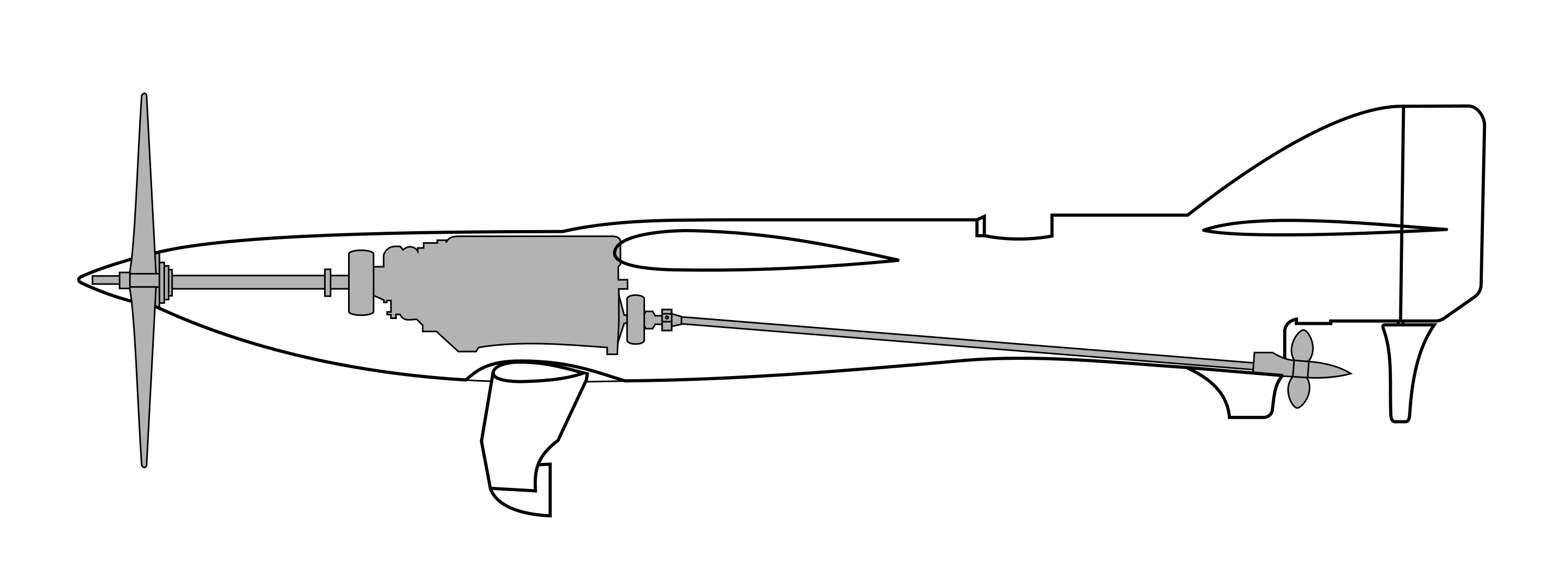 A cross-section of the Italian late 1920s racing seaplane Piaggio Pegna P.C.7 shows the aircraft's peculiar engine-propellers system.